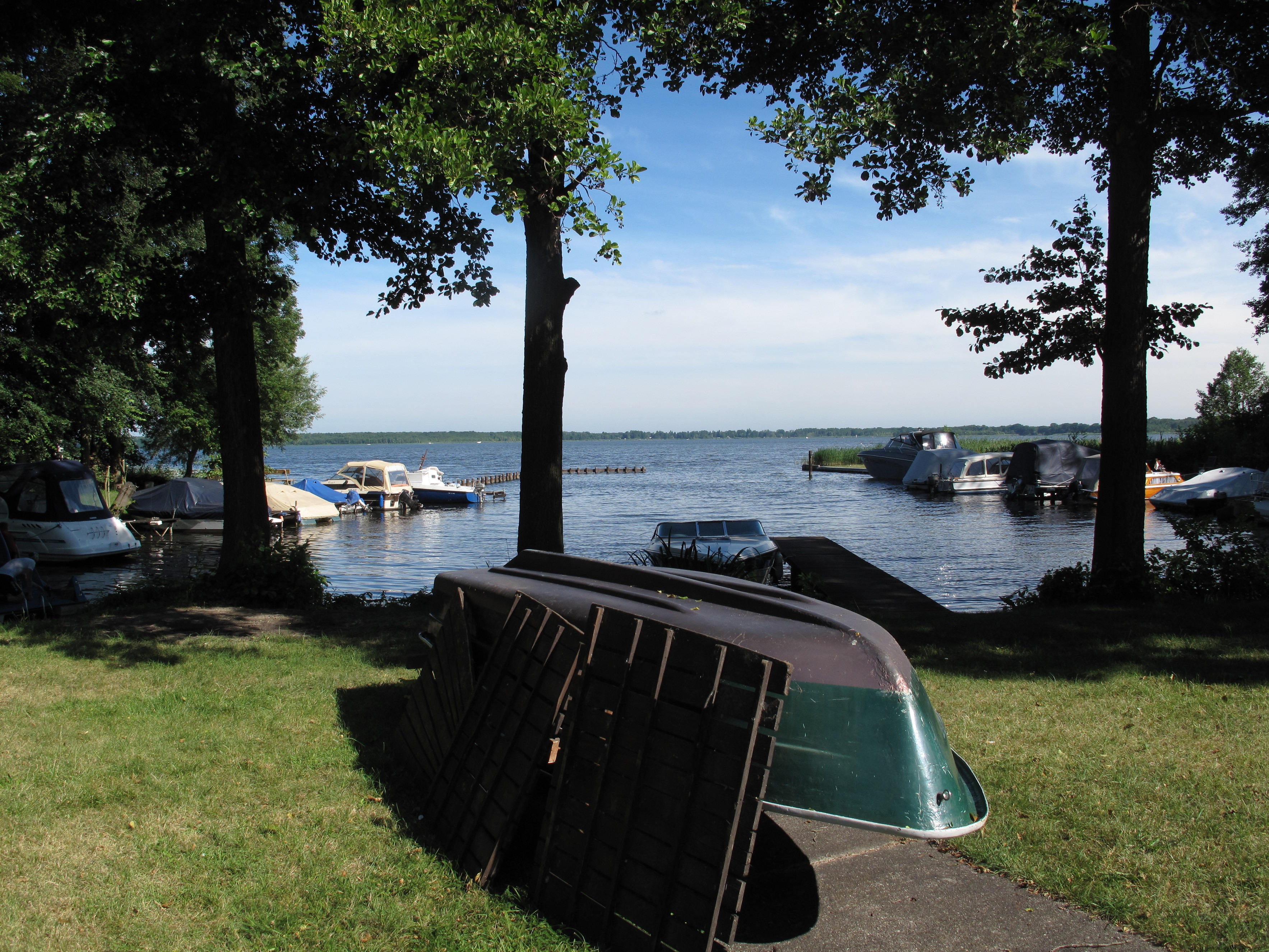 The Wolziger See is a lake in Heidesee, District Dahme-Spreewald, Brandenburg, Germany. The lake covers 597 hectare and has a depth of max. 13 meters. It is situated in the Dahme-Heideseen Nature Park. Shown here: view from the south-eastern shore in Görsdorf at the confluence of the Köllnitzer Fließ/Mühlenfließ.